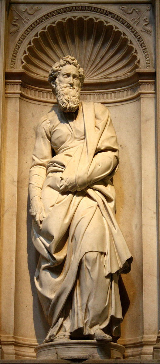 Statue of Saint Paul by Michelangelo in the Cathedral of Siena Filename is wrong